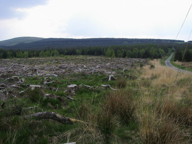 Glasfynydd Forest Glasfynydd Forest cleared area by lane to Belfont